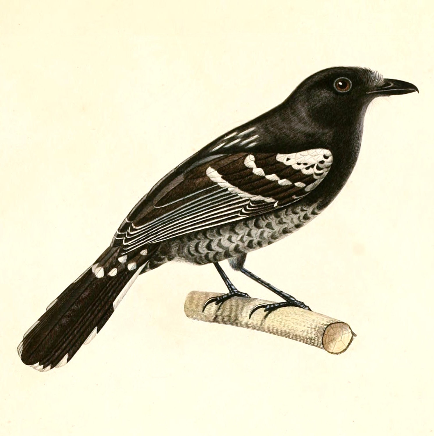 « Tamnophilus aspersiventer » = Thamnophilus caerulescens aspersiventer (Subspecies of Variable Antshrike)